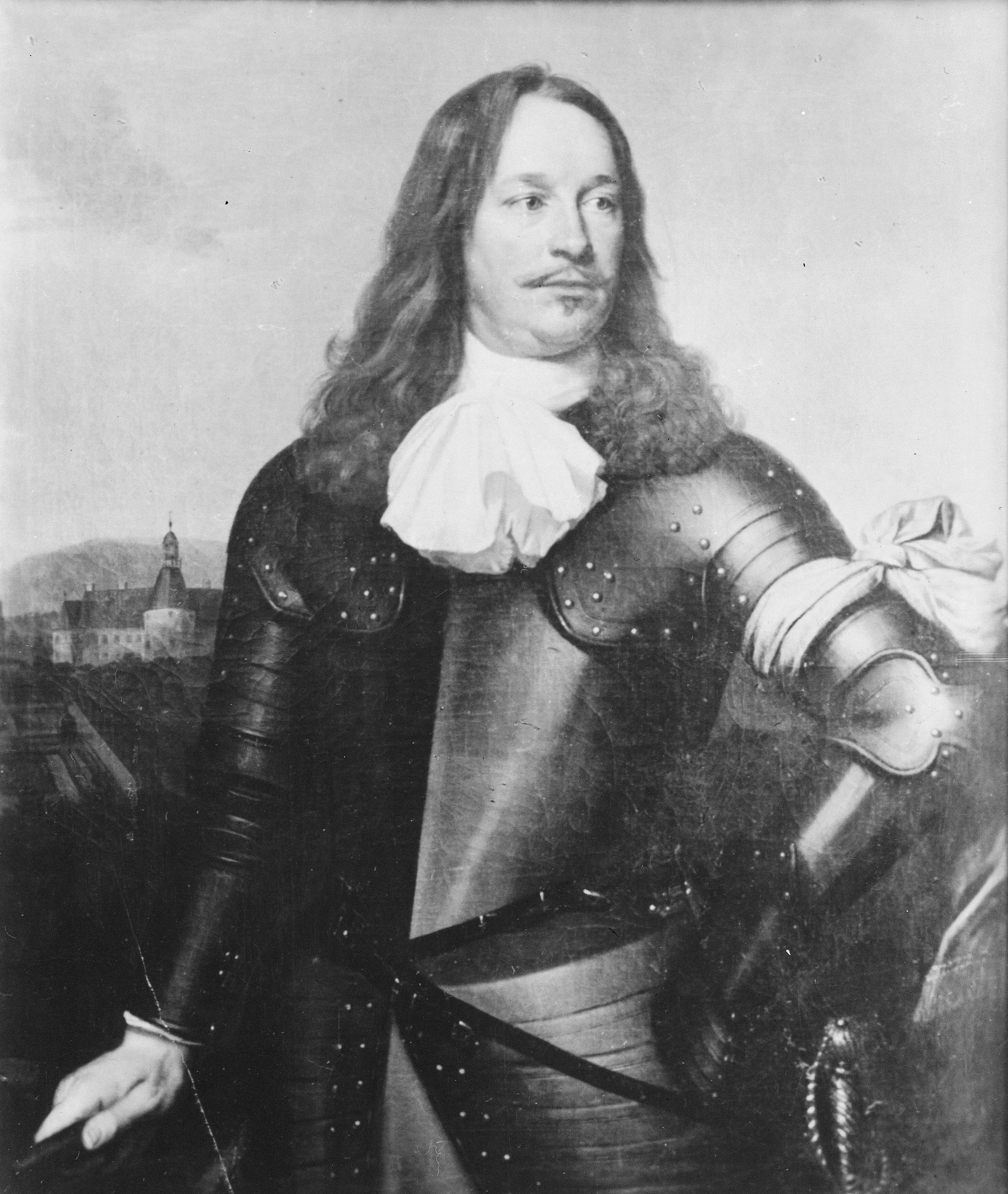 Otto count of Limburg and Bronckhorst (1620-1679), lord of Stirum, Wisch, Borculo and Gehmen, hereditary estate lord of the principality of Gelre and the county of Zutphen, governor of Groenlo etc.